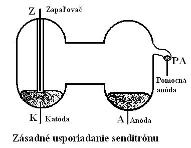 Senditron